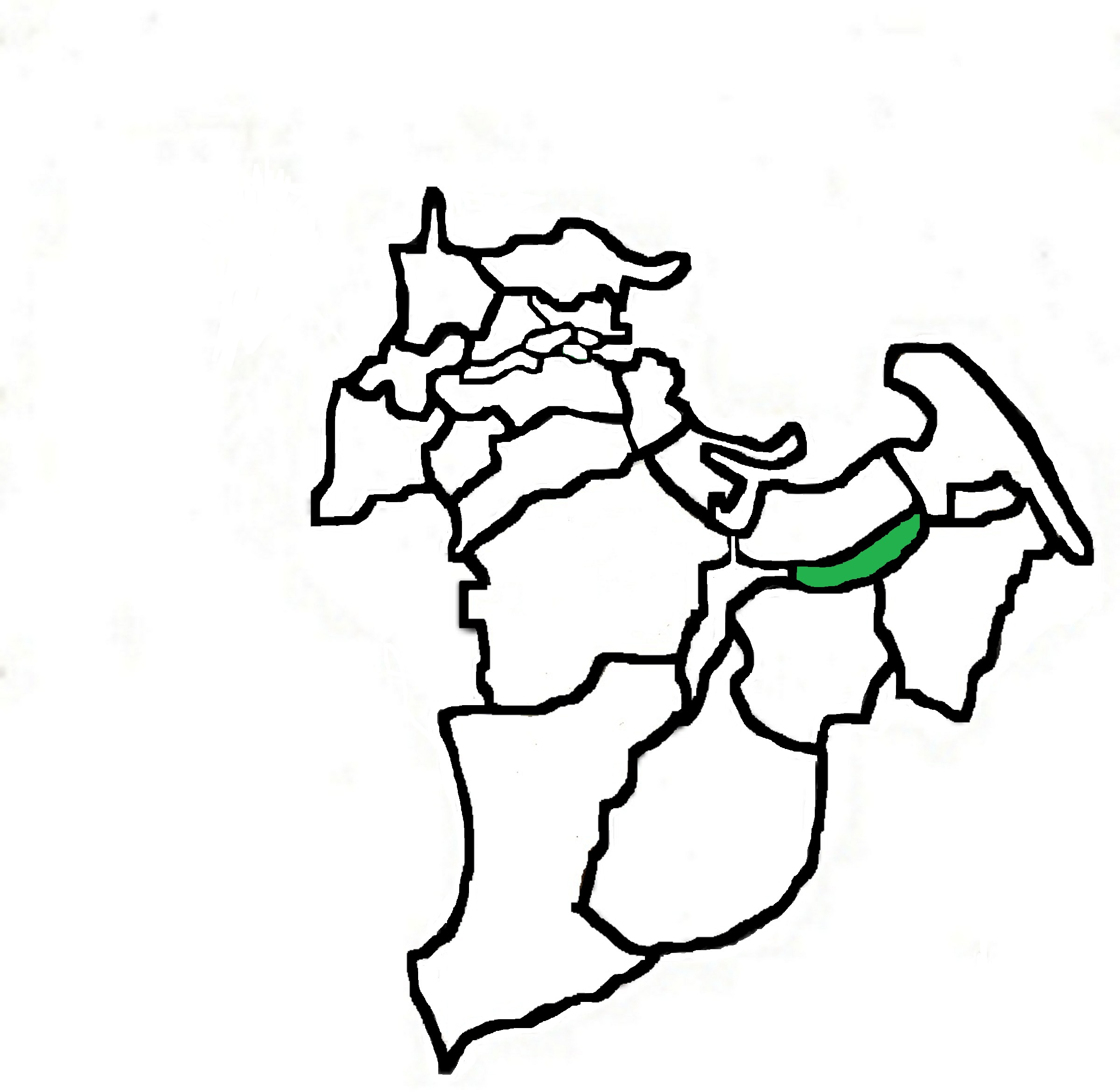 Wadatsubirakitown Komatsushimapref Tokushimapref range